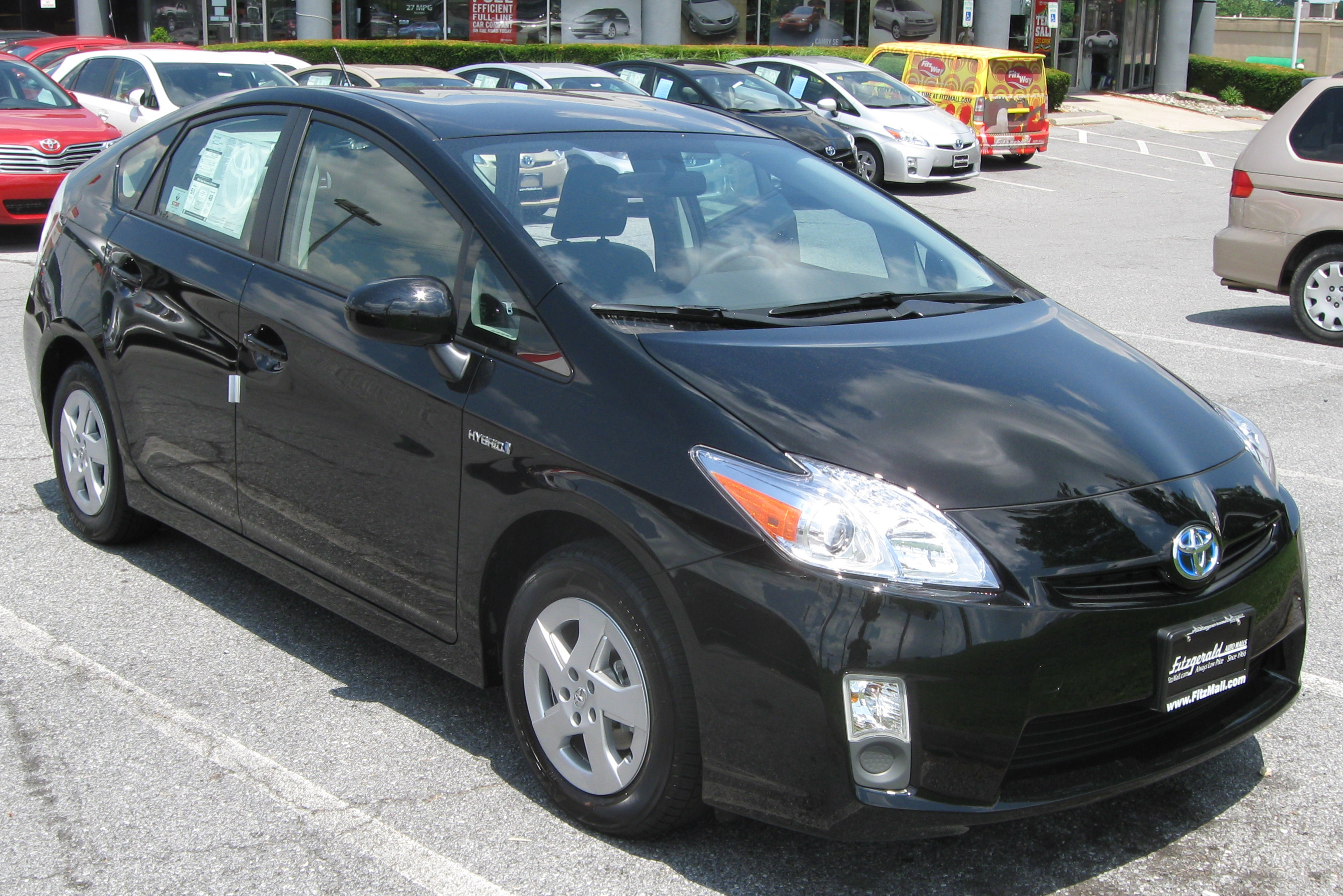 2010 Toyota Prius photographed in Gaithersburg, Maryland, USA.